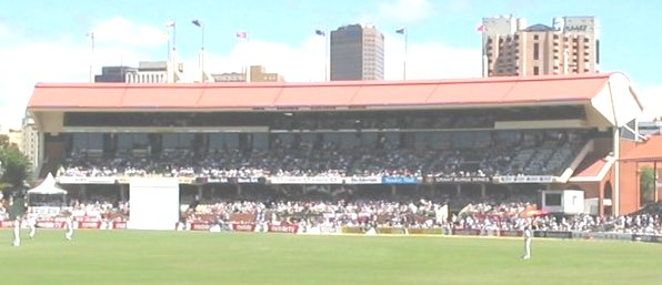 This is a cropped version of the image Bradman Stand.jpg that was uploaded and used in the article about the Adelaide Oval. The creator of the image has released it into the public domain.